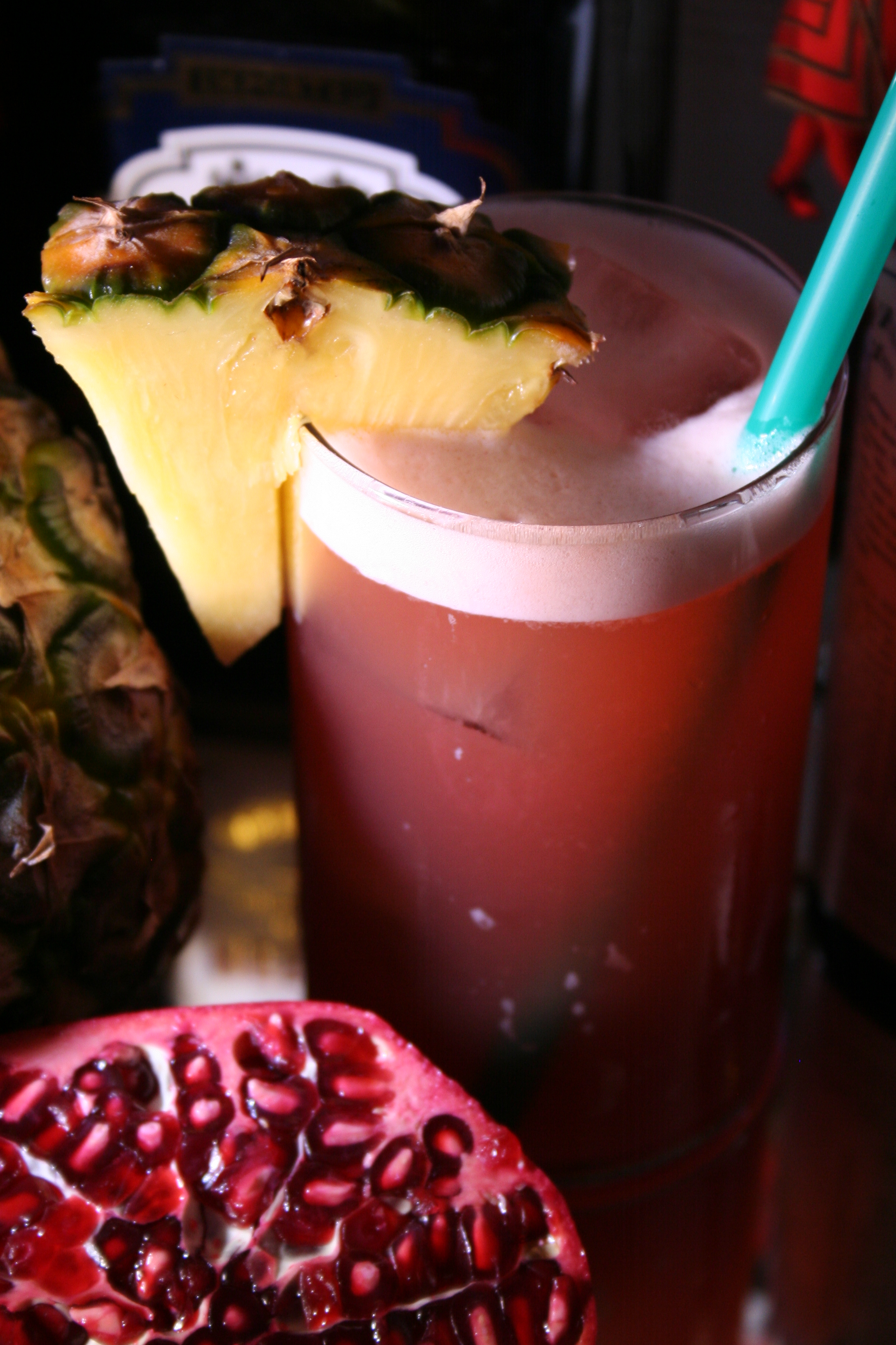 Singapore Sling with a straw, garnished with a slice of pineapple, in the foreground a pomegranate cut in half